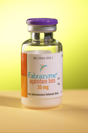 Fabrazyme Product Picture